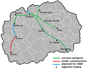 MK highways 2019